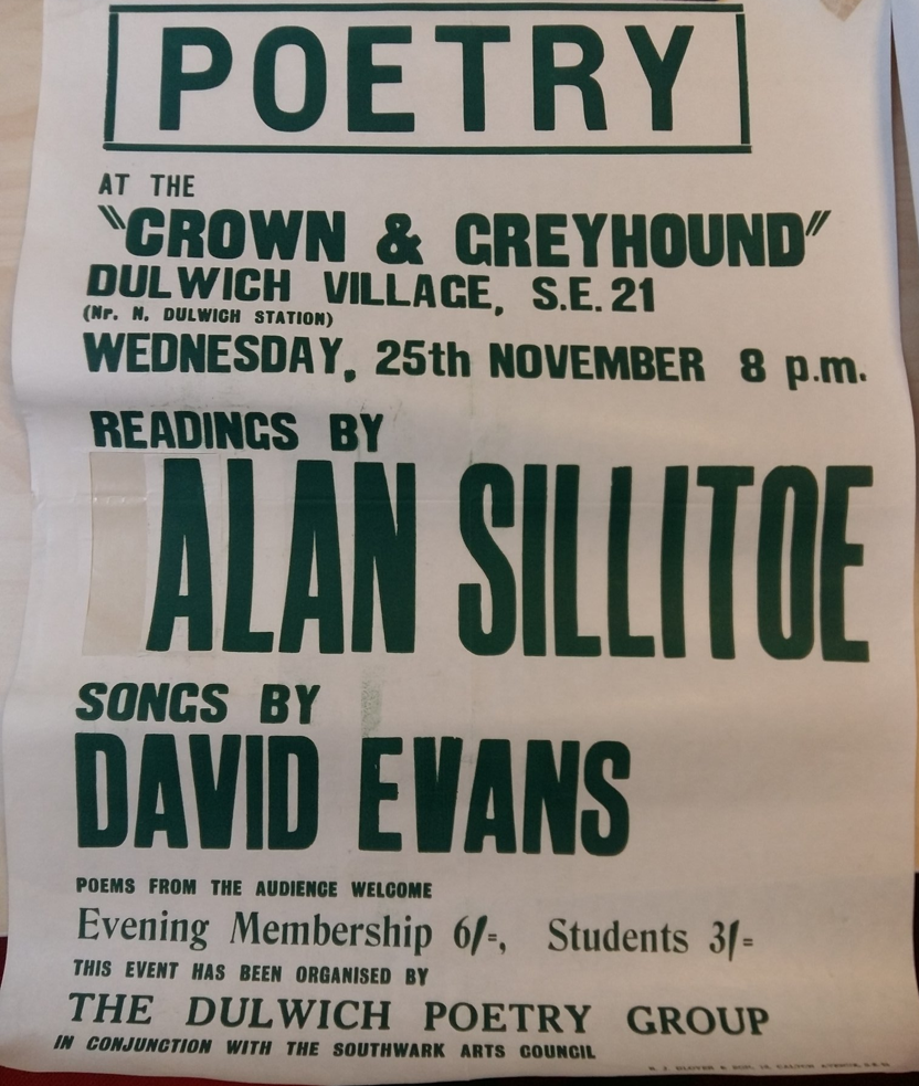 Poster advertising Alan Sillitoe poetry reading at the Crown and Greyhound, Dulwich.